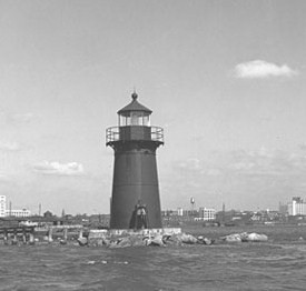 Bridgeport Breakwater (Tongue Point) Light (Fairfield County, Connecticut); photo No. 3CGD10215806 - cropped